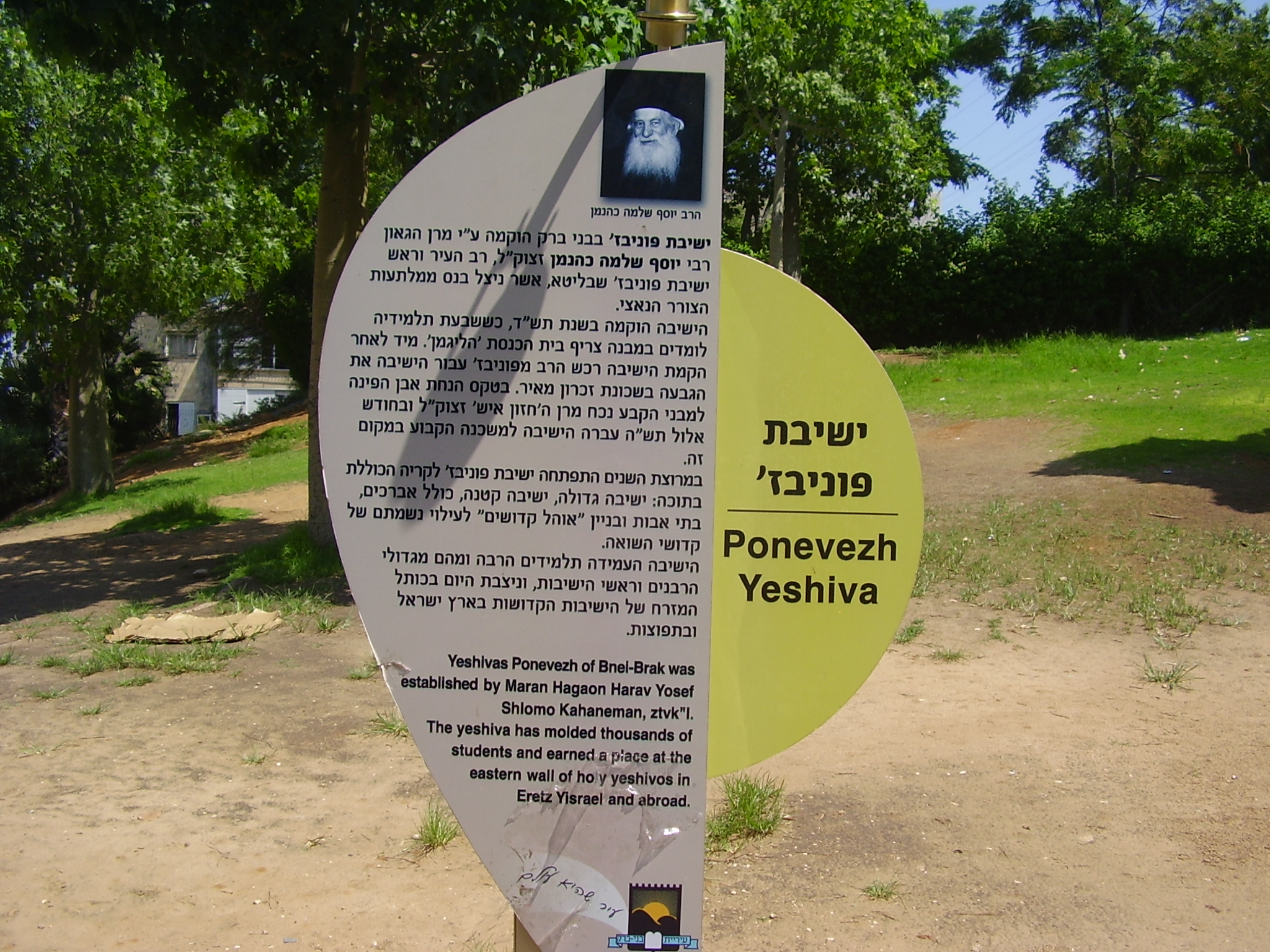 plaque about the history of ponevezh yeshiva in bnei brak שלט הסבר על ישיבת פוניבז' בבני ברק